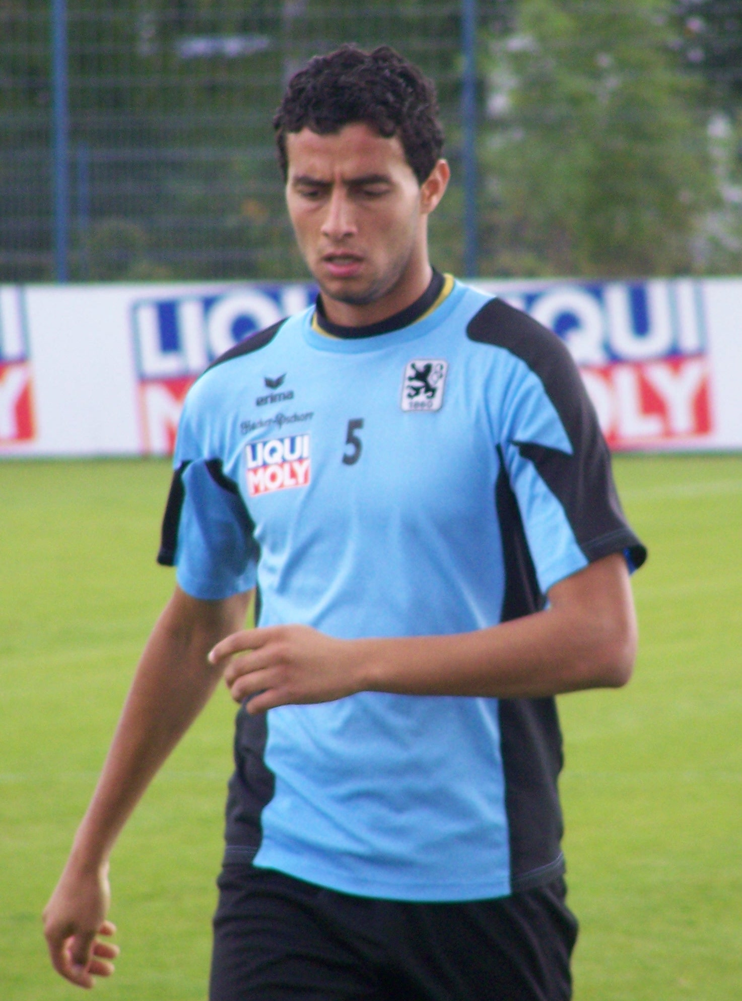 Radhouene Felhi, 1860 munich, training